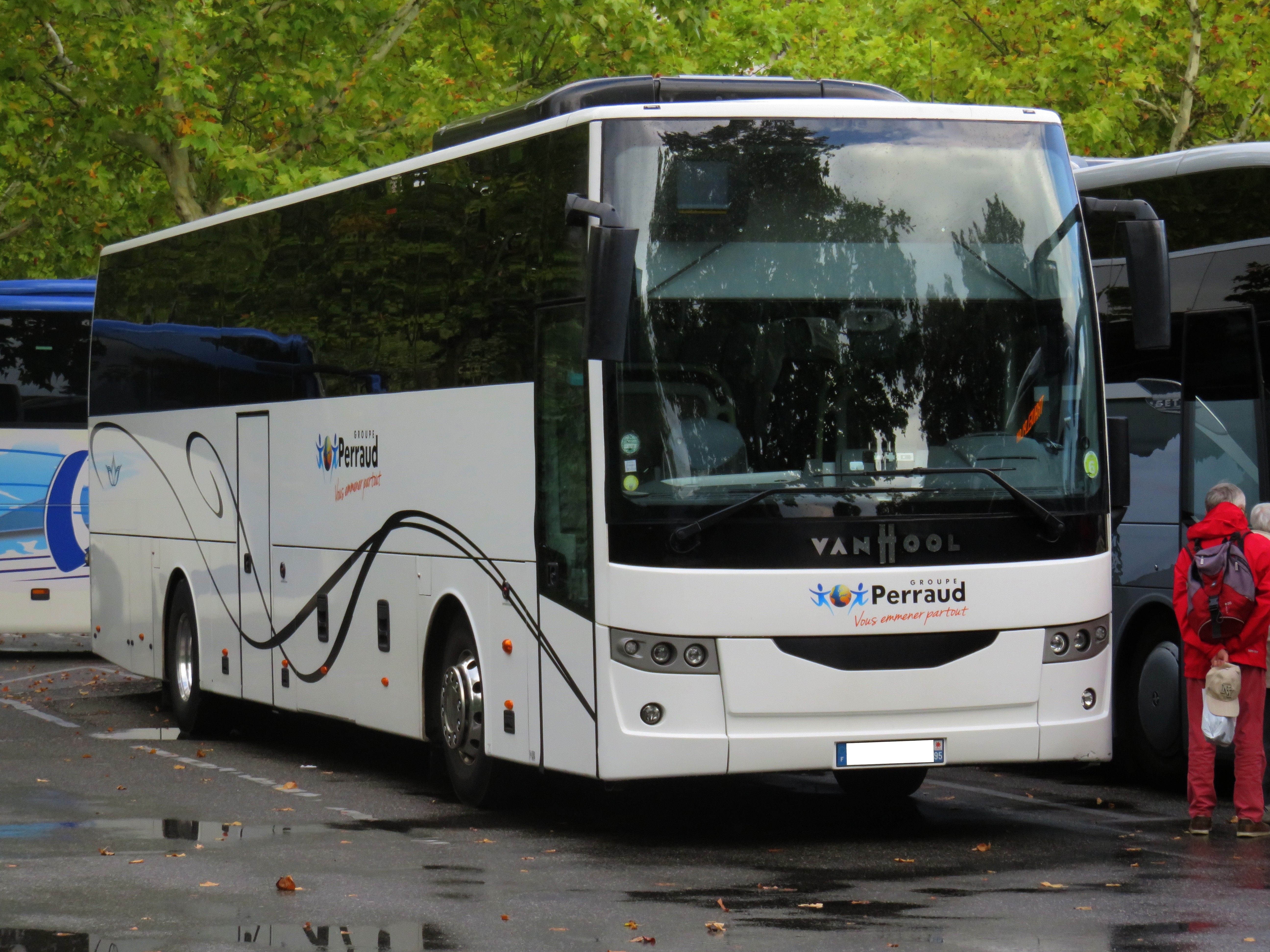 A Van Hool EX16M (Perraud) parked on the Parking du Stade Nautique (Annecy, France) on September 13, 2018.